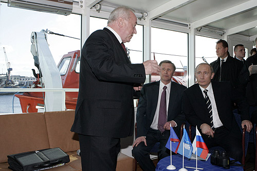 Yevdokimov, Ivanov and Putin